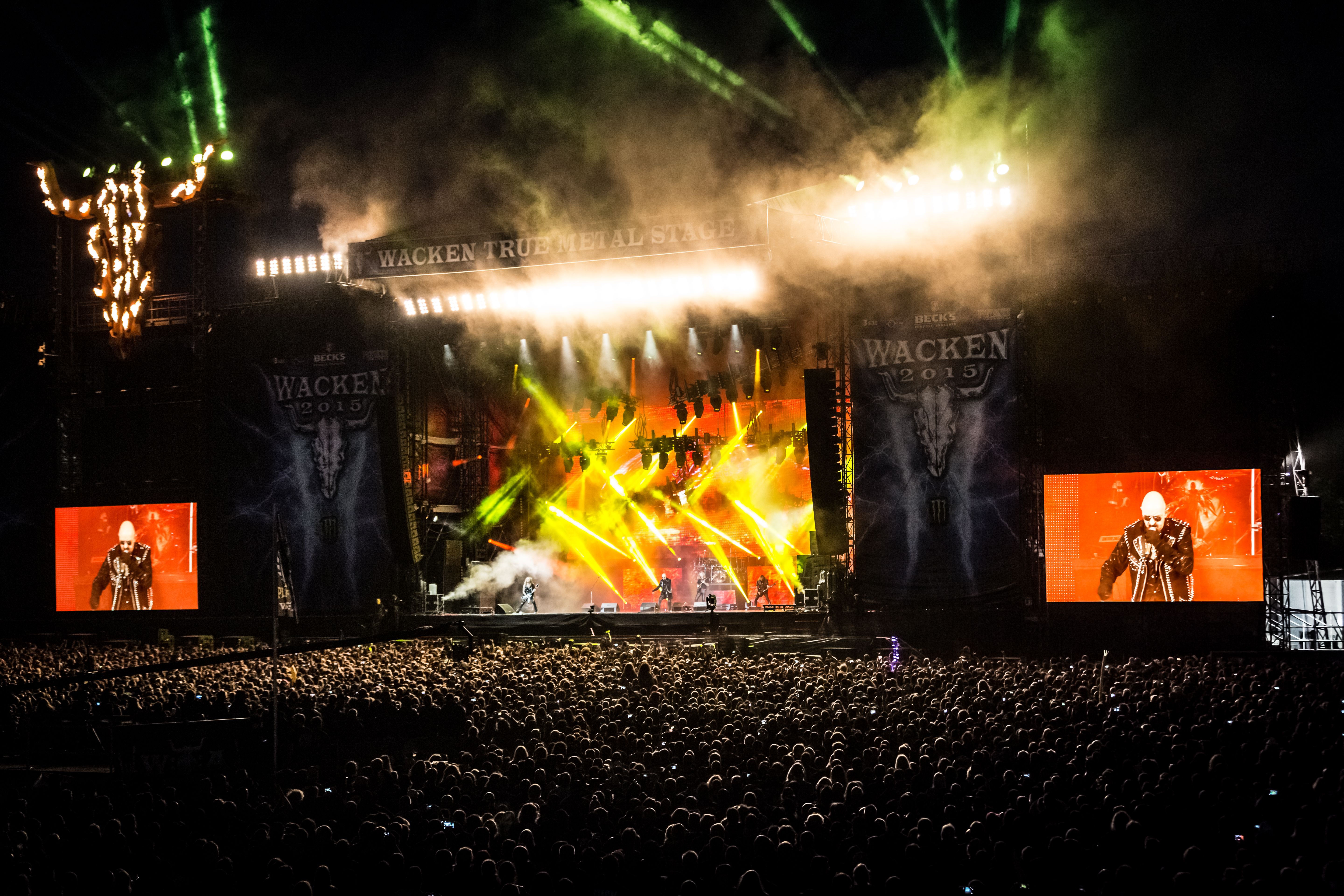 Judas Priest - Wacken Open Air 2015